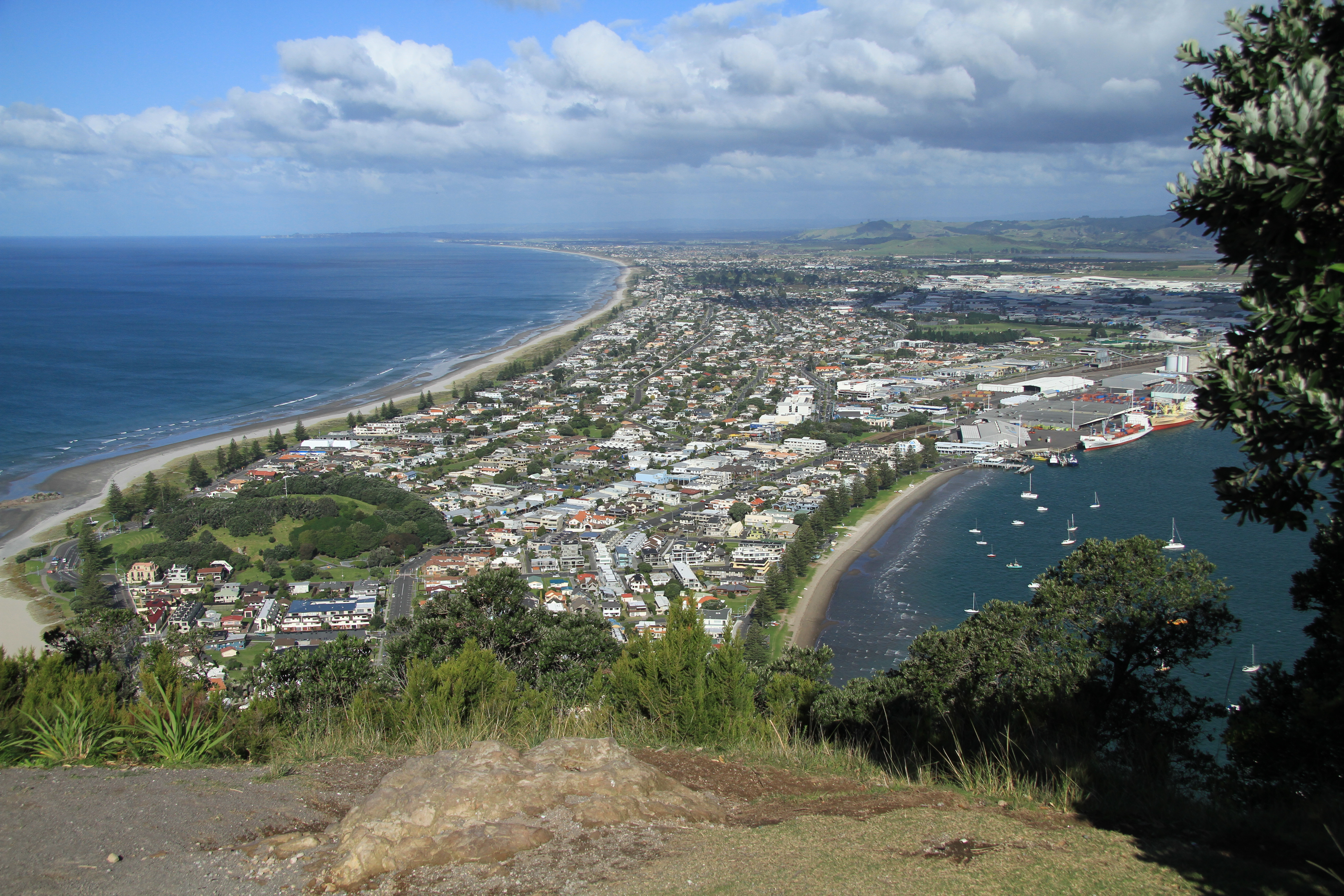 A view from the top of Mount Maunganui.